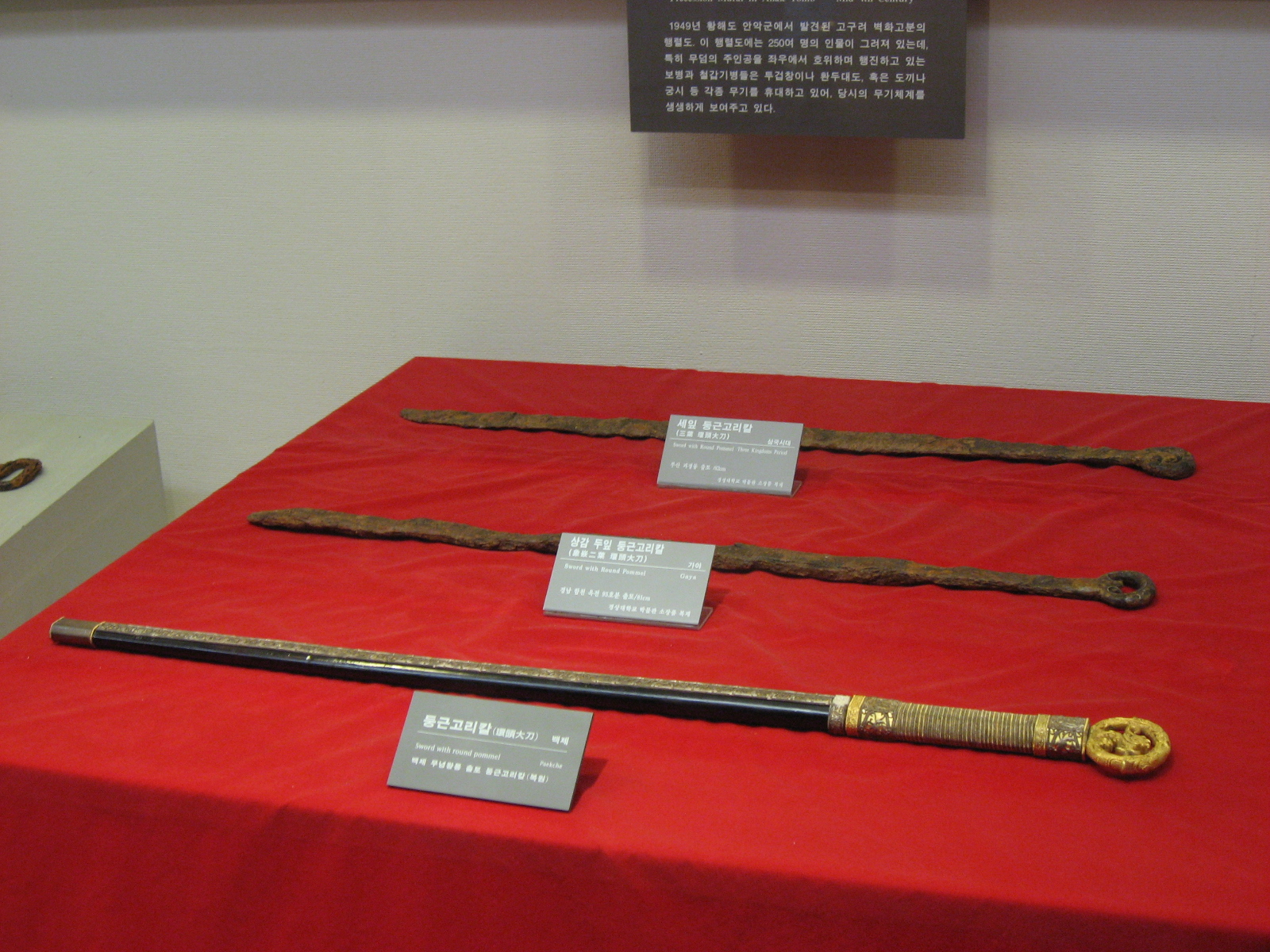 The ring-pomelled sword is a characteristic of Three Kingdoms era swords.